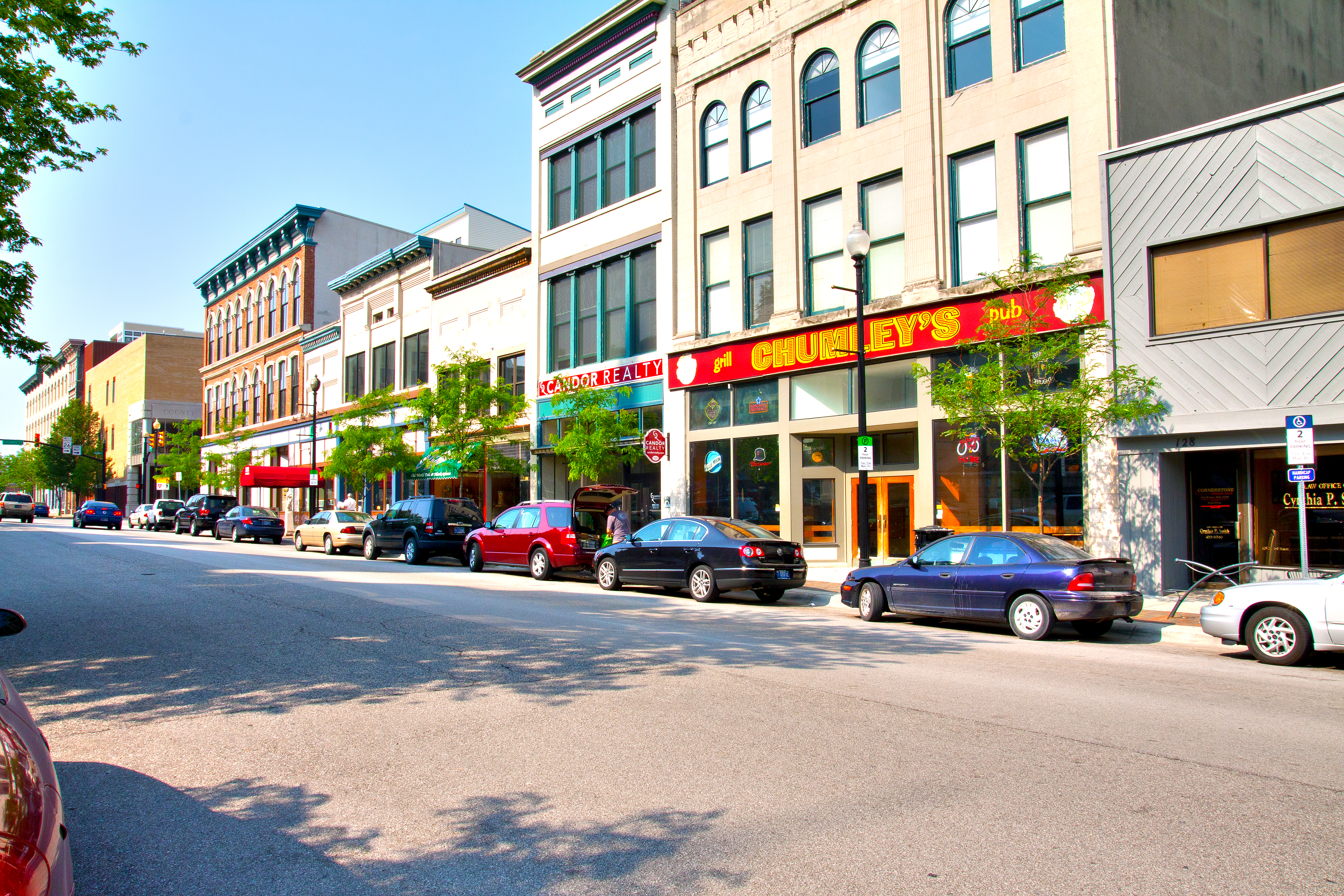 Third Street in Lafayette,Indiana.